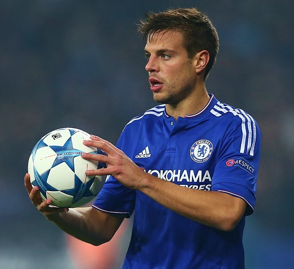 César Azpilicueta